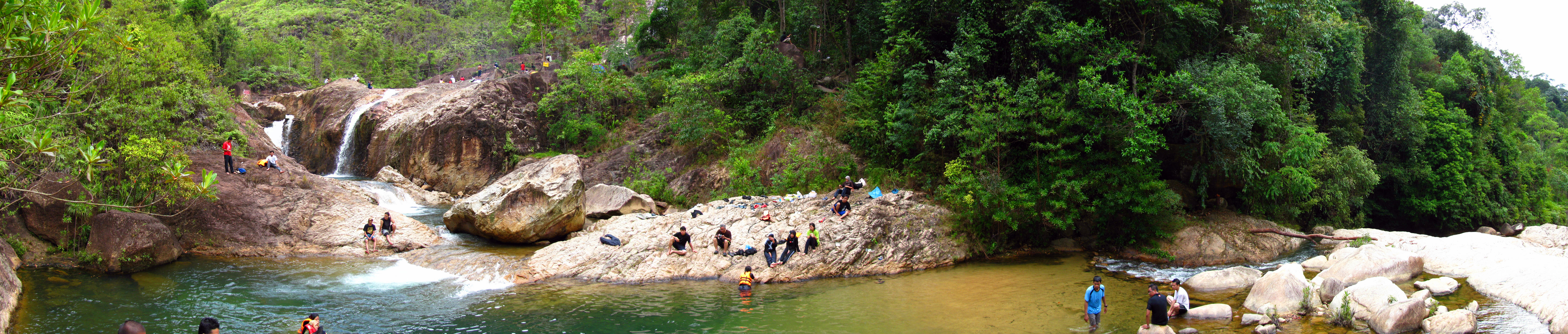 A panoramic photo of the seventh tier of Berkelah Falls.